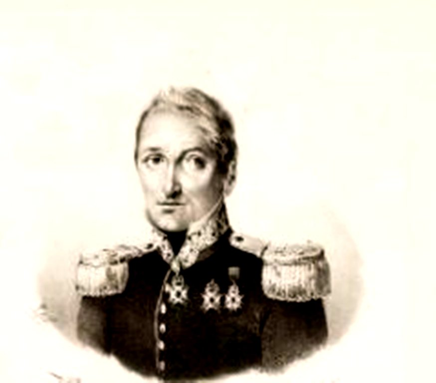 J.J. van Geen